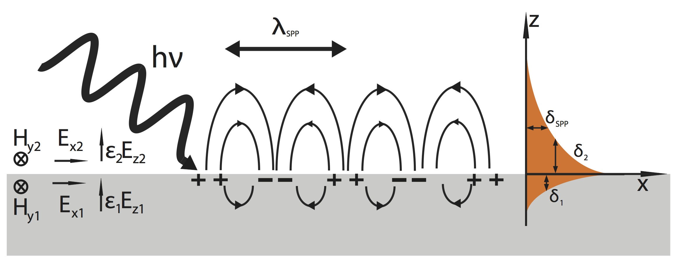 Sketch of a surface plasmon. Illustrating its propagation along the metal-dielectric boundary, the intensity of the evanescent fields in each layer, and showing the direction and variables names for fields involved.